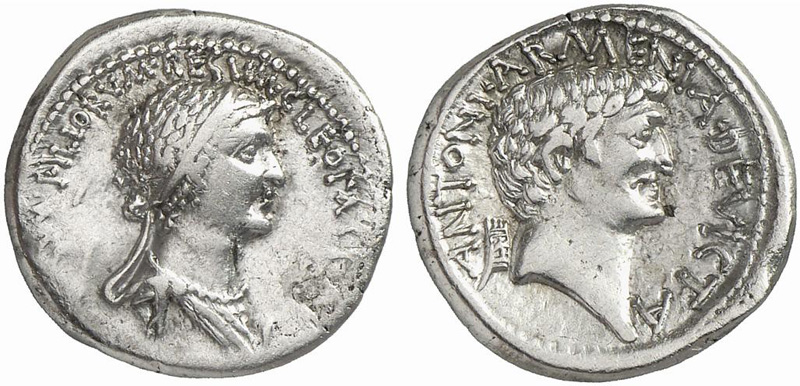 Mark Antony and Cleopatra. Denarius (Silver, 3.45 g 12 mm), mint moving with Antony, 32 BC. Obverse: CLEOPATRA[E REGINAE REGVM]FILIORVM REGVM Diademed and draped bust of Cleopatra to left Reverse: ANTONI ARMENIA DEVICTA Head of M. Antony to right; behind, Armenian tiara. References: Babelon (Antonia) 95. Crawford 543/2. CRI 345. Sydenham 1210. This coin is catalogued as being 'Rare'. The condition of this specimen, which was offered for sale in 2010, was described as "Minor marks and traces of corrosion, otherwise, very fine". The romance of Mark Antony and Cleopatra has featured in many publications including Antony and Cleopatra by William Shakespeare.